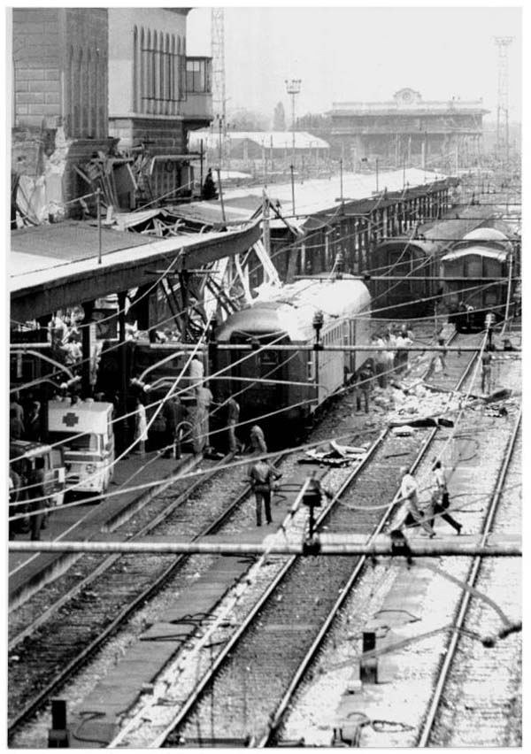 Bombing at Bologna: August 2nd 1980